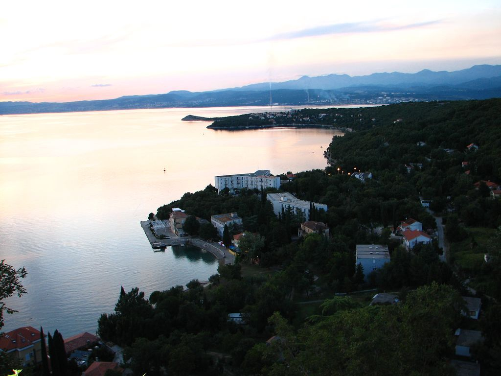 Omišalj (Krk - Croatia) - Old Town.